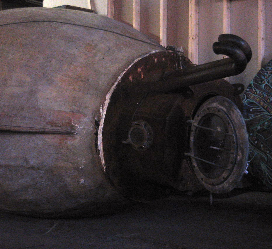 An Artist and His Sub Surrender in Brooklyn Replica of 18th century submarine The Turtle ( constructed by 21st century artist Duke Riley (